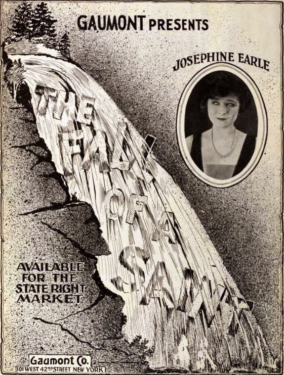 American advertisement for the British film The Fall of a Saint (1920) with American actress Josephine Earle, on page 12 of the October 2, 1920 Exhibitors Herald. The ad does not contain any stills from the film.